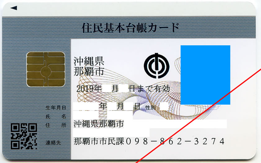 the Basic Resident Registration Card(Identification card JAPAN) Naha City issue